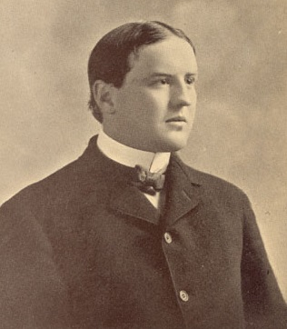 Photograph of Garrett Cochran